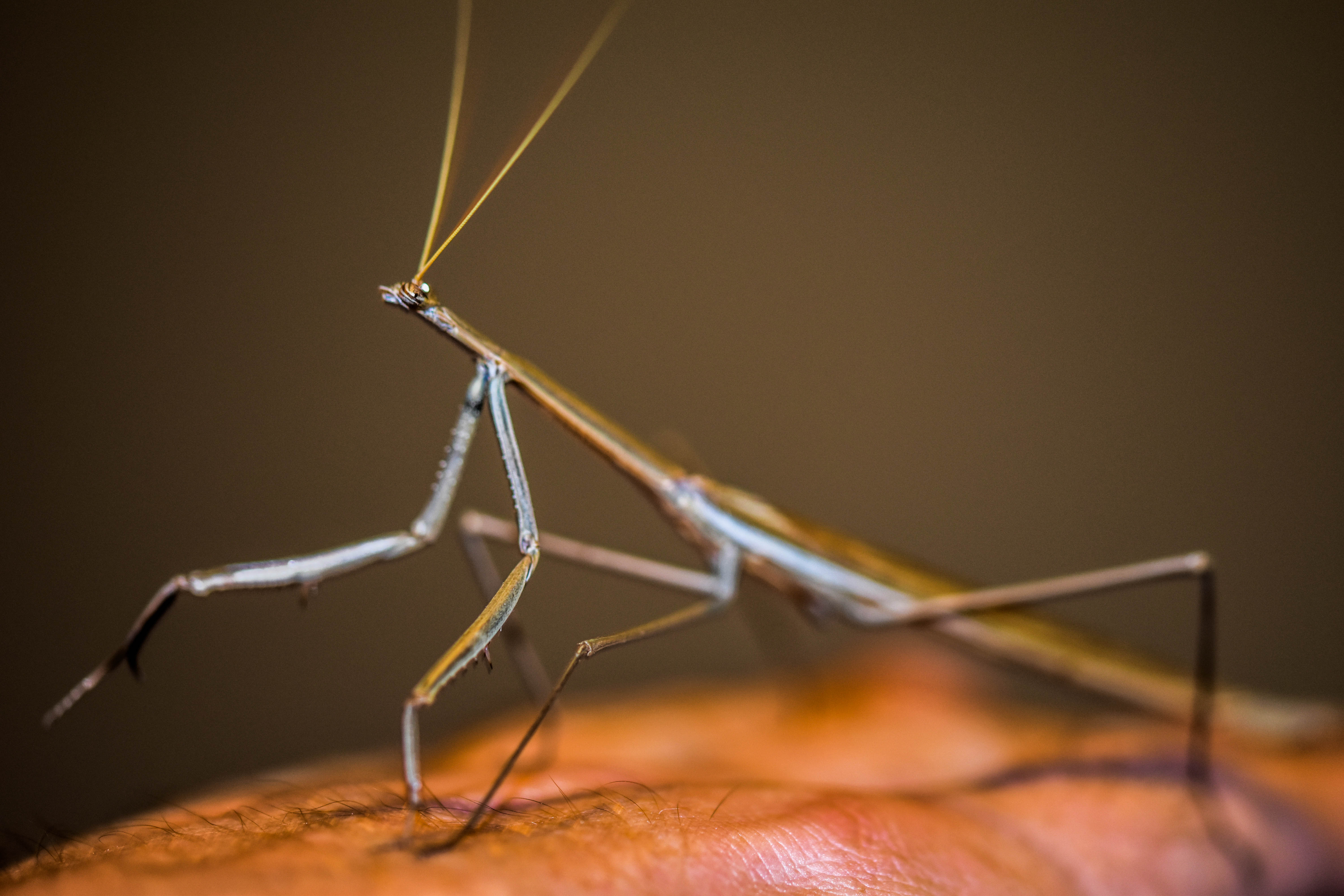 A large stick mantis (Hoplocoryphella grandis from the Thespidae family). About 100 mm long, taken in Bloemfontein, South Africa.